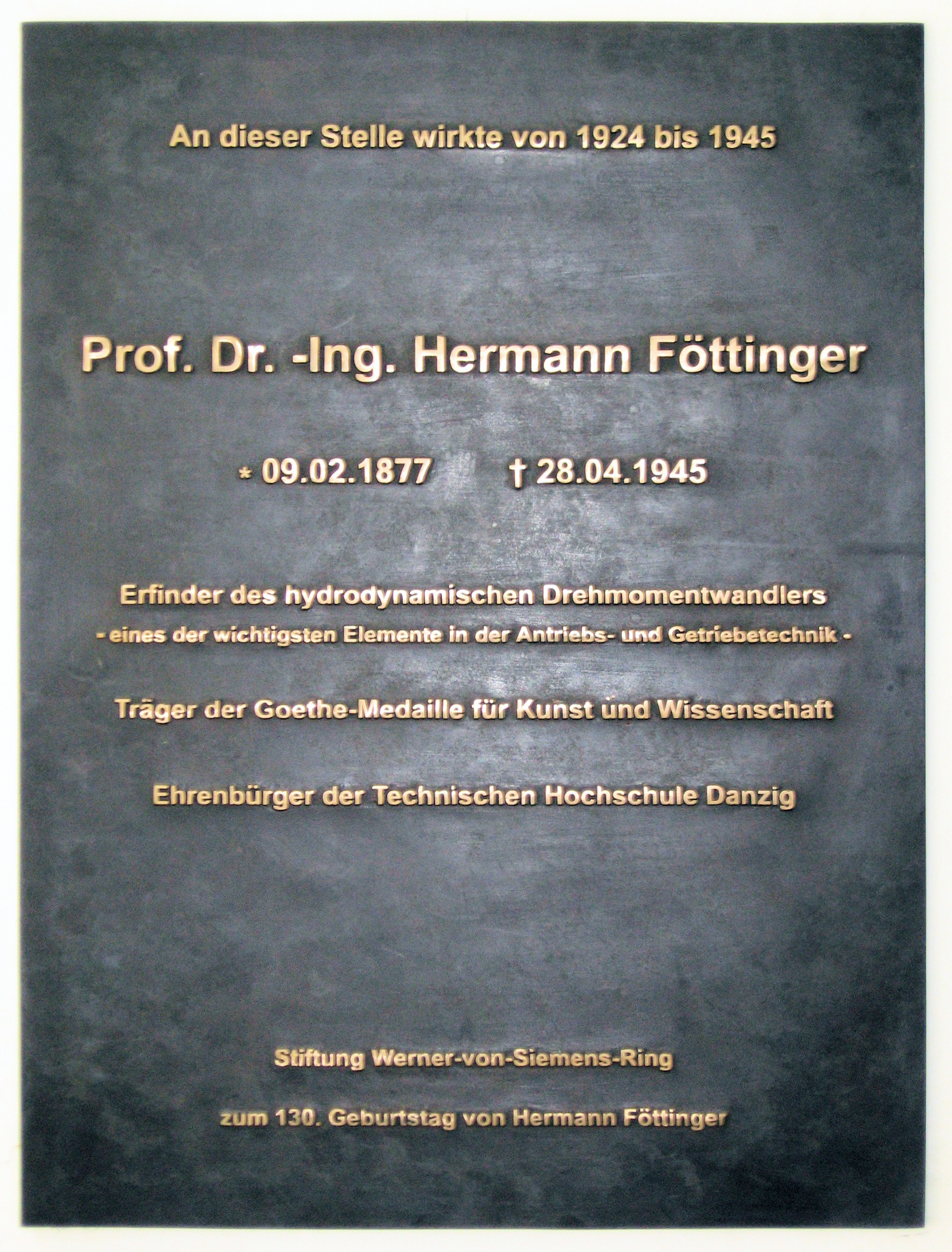 Memorial plaque, Hermann Föttinger, Straße des 17. Juni 125, Berlin-Charlottenburg, Germany